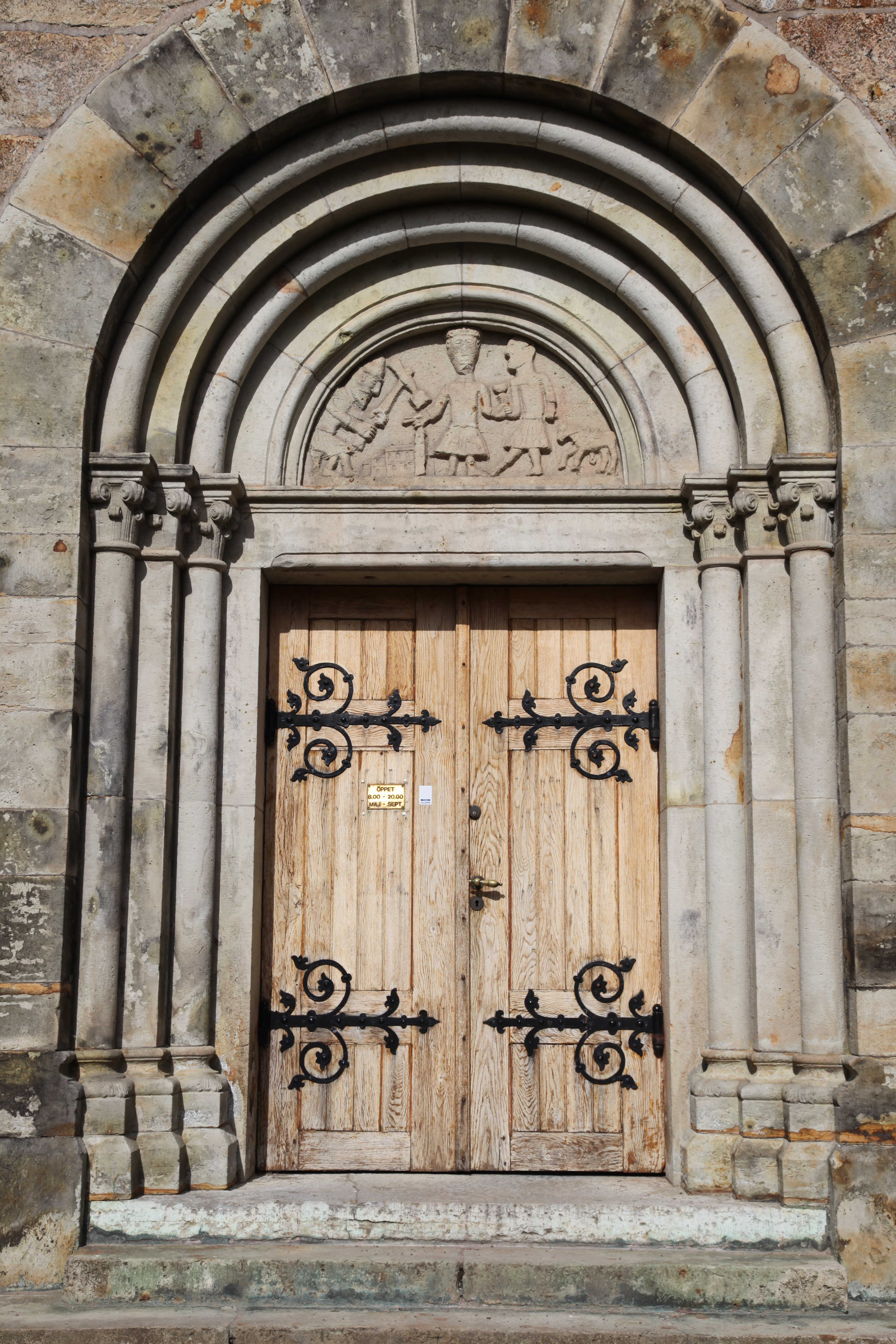 Forshems kyrka. A church near Lidköping. Portal. - OpenStreetMap(Info)